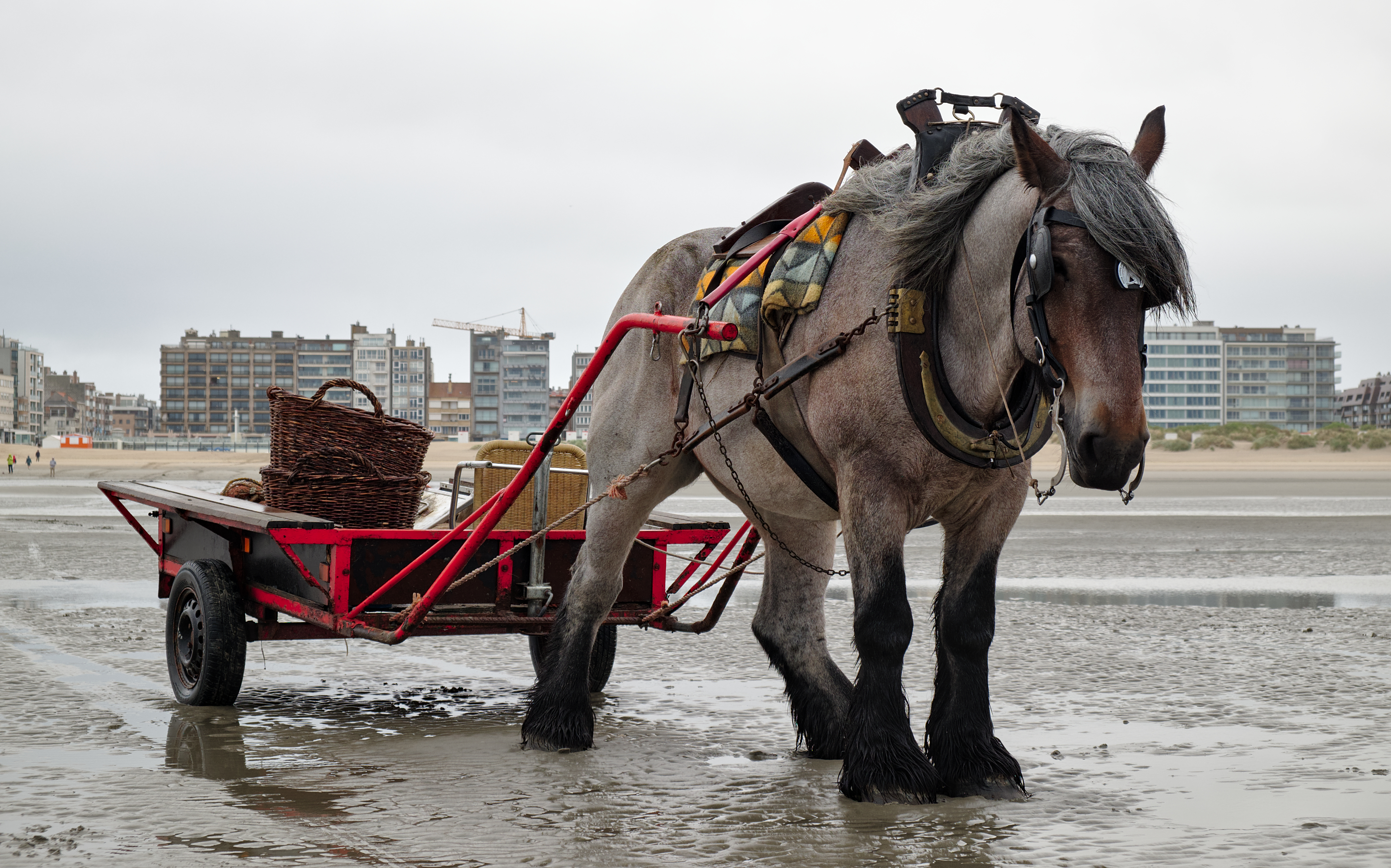 A Brabançon draft horse carrying shrimping gear in Oostduinkerke (Koksijde, Belgium) This photo of immaterial heritage has been taken in the Flemish Region